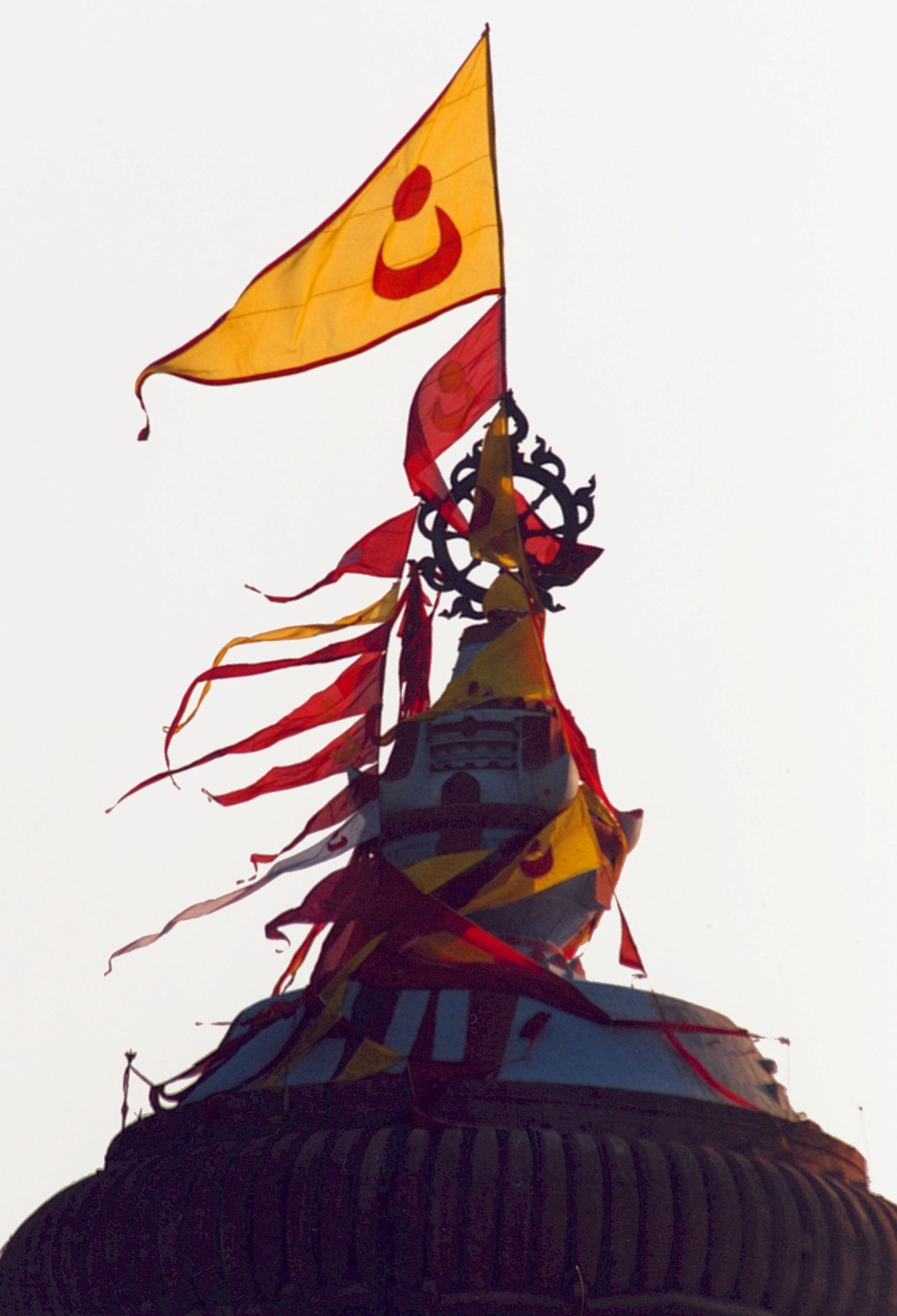 Puri chakra photo 2008 Software used Artweaver 0.4